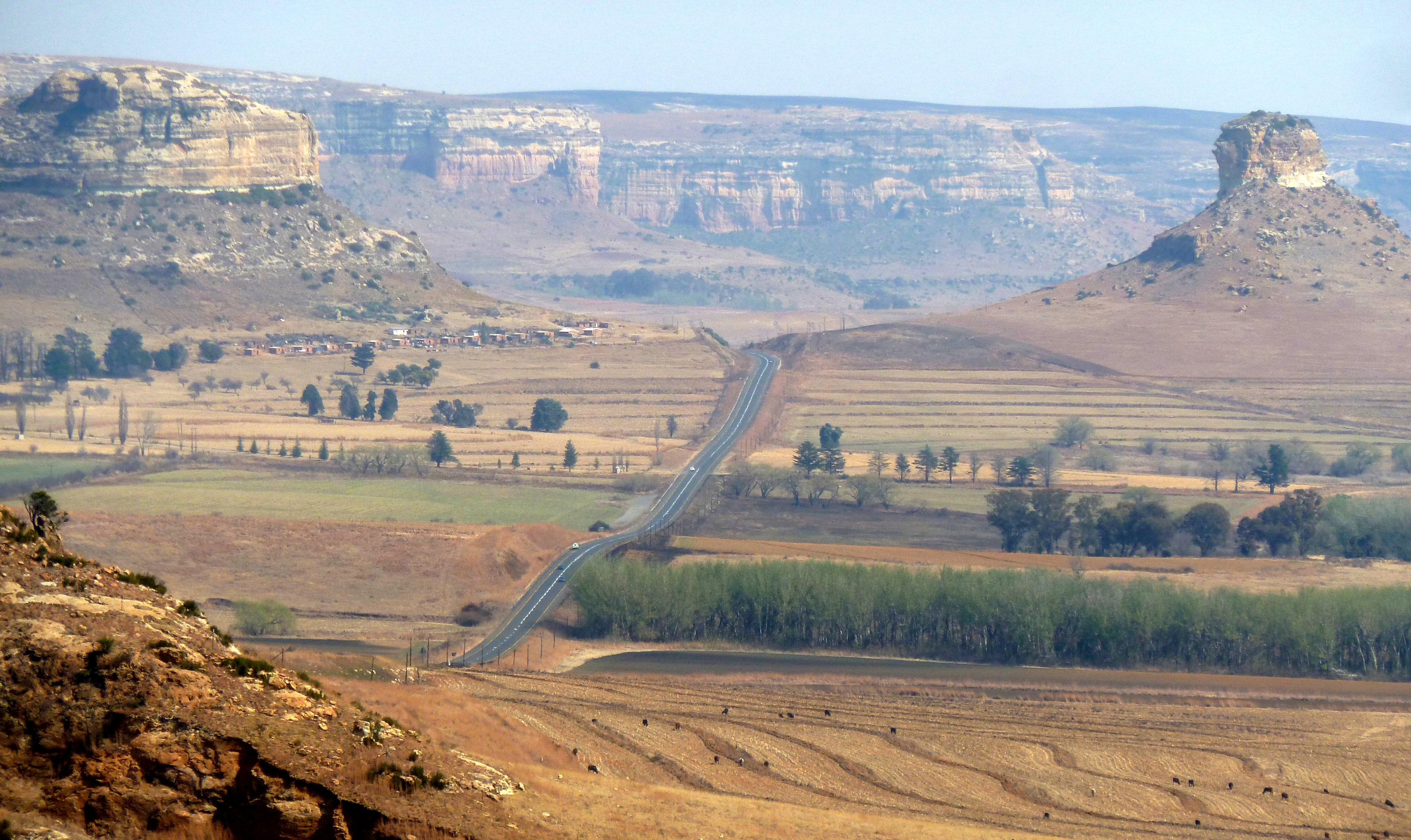 Looking southwest along the R711 route between Clarens and Fouriesburg, eastern Free State